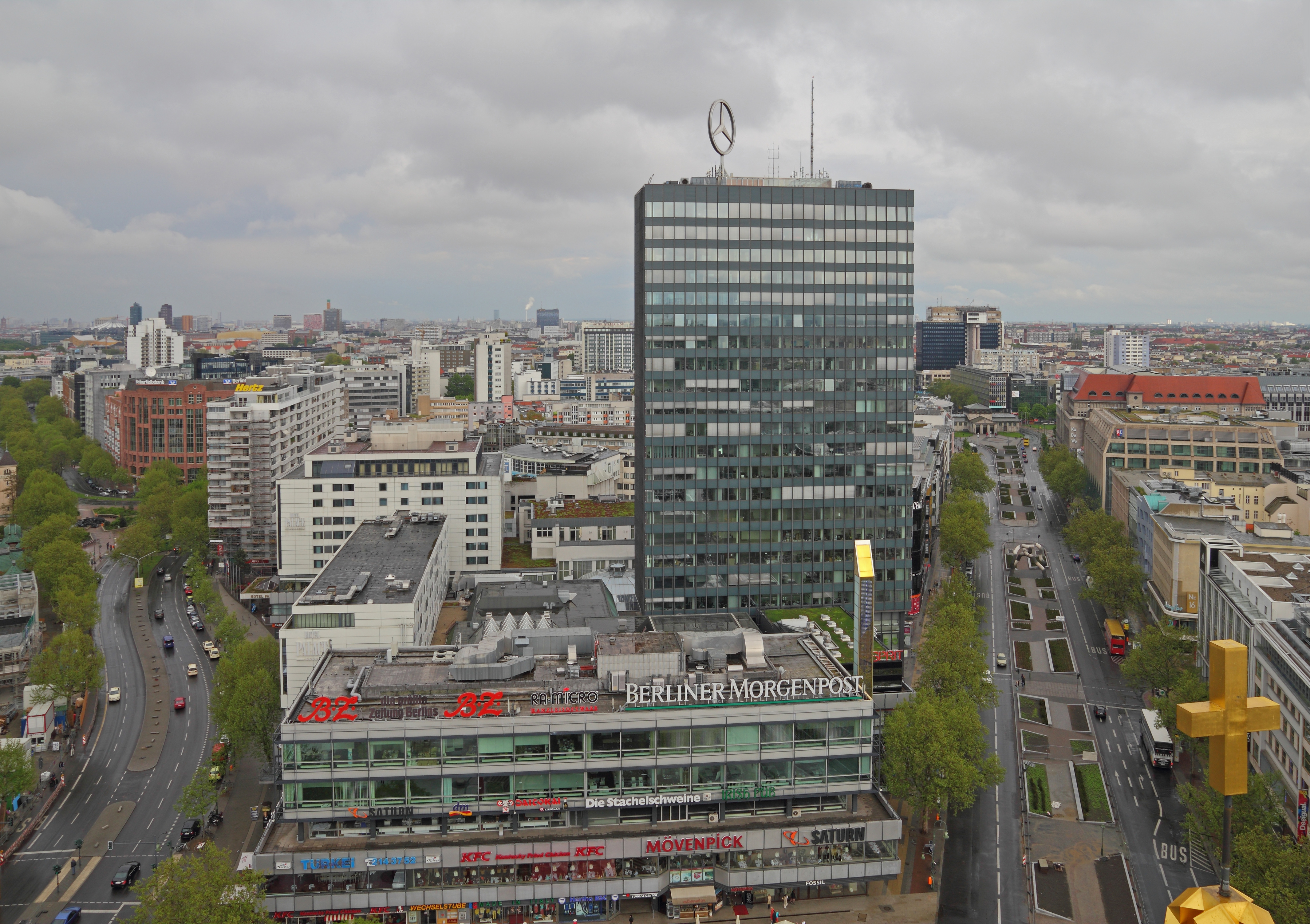 Views from the scaffolds of the Kaiser Wilhelm Memory Church. Berlin-Charlottenburg.